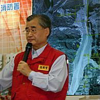 Mao Chi-kuo